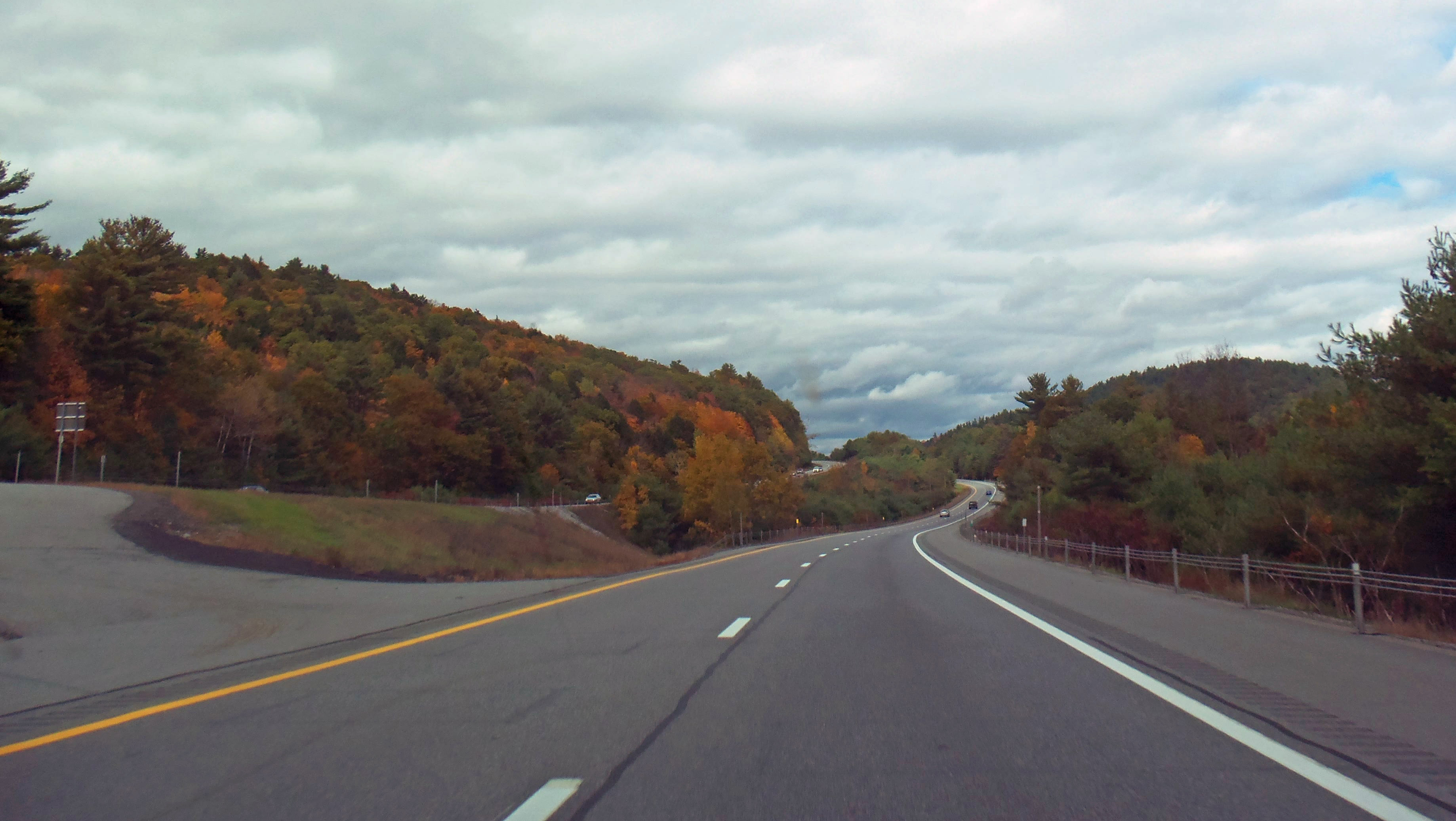 View north along Adirondack Northway (Interstate 87), between Lake George and Schroon Lake, NY, USA